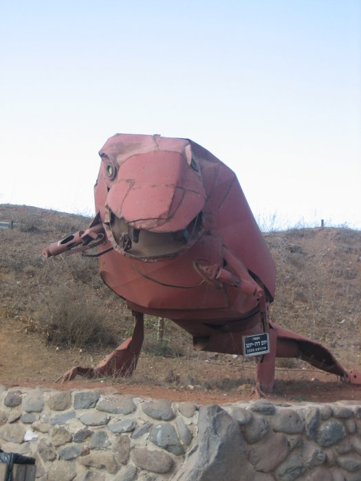 Sculpture by Yoop de Yong, Kibbutz Merom Golan, Golan heights